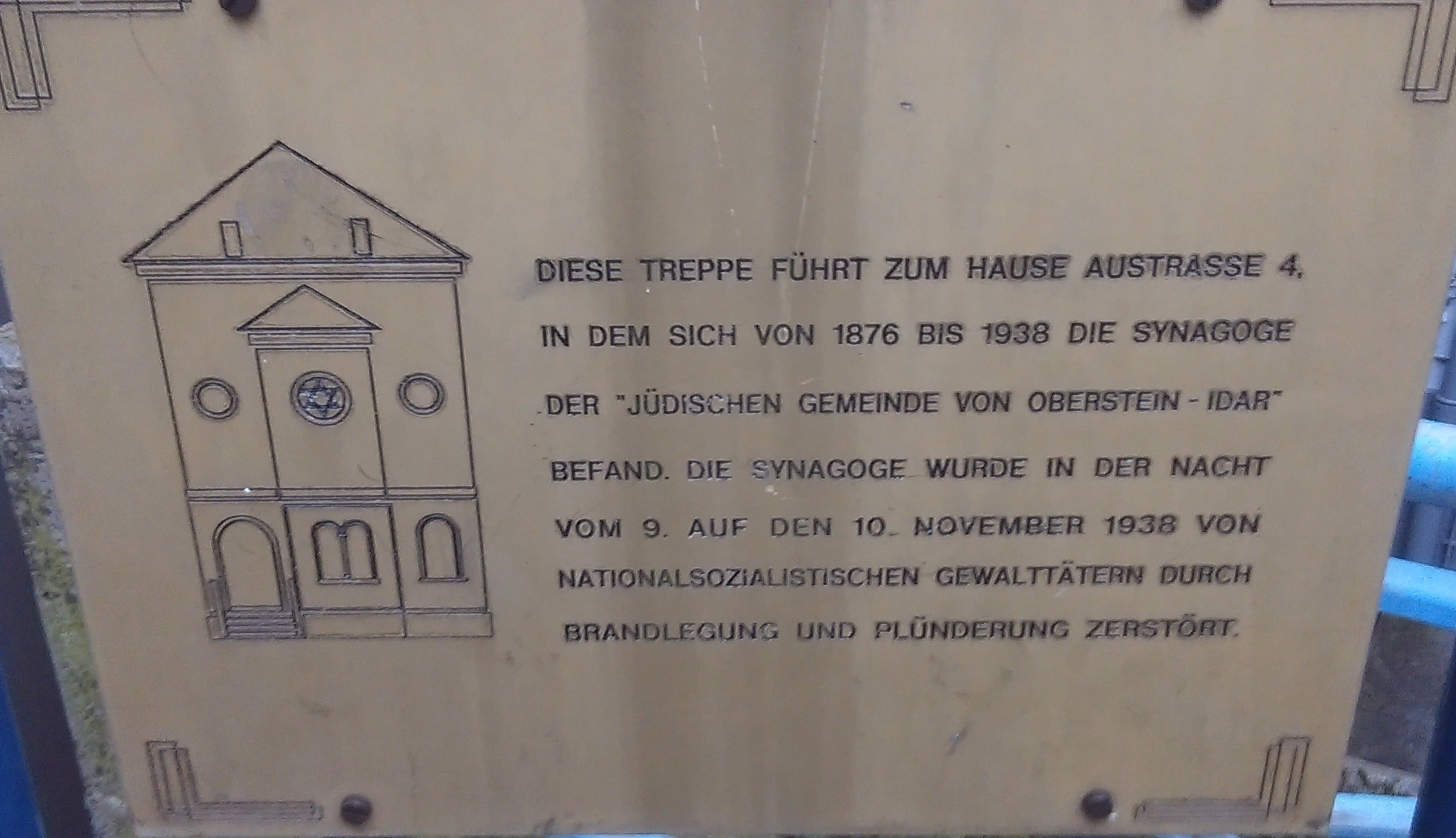 memorial tablet jewish community Idar-Oberstein, Gedenktafel für die jüdische Gemeinde in Idar-Oberstein.